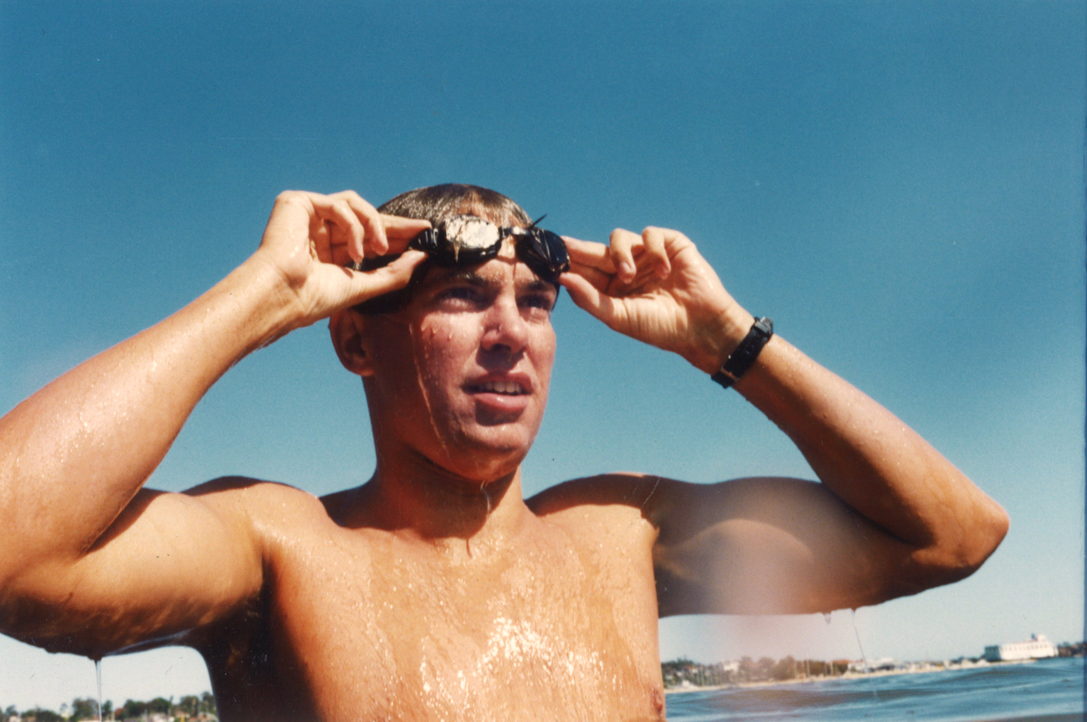 Ready to Race Openwater David O'Brien